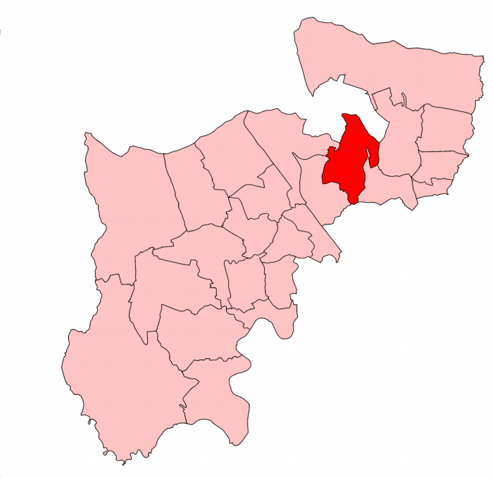 A map of Finchley constituency within Middlesex, as it existed from 1945 to 1950.